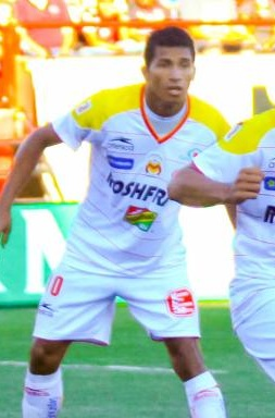 Morelia player Joao Rojas